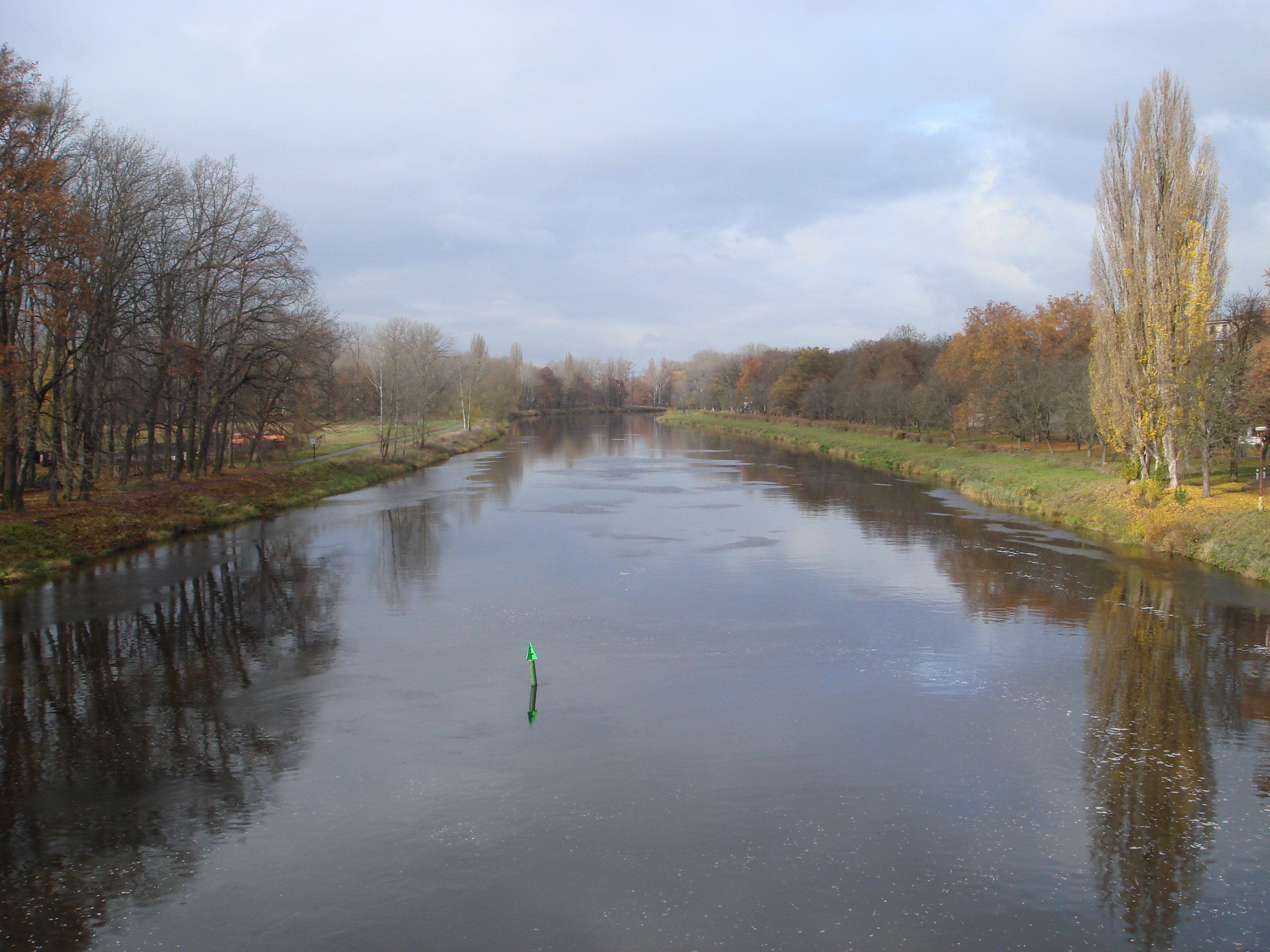 River Labe in Poděbrady (Central Bohemian Region, Czech Republic).